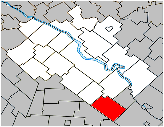 Location of Durham-Sud, Quebec within Drummond Regional County Municipality.